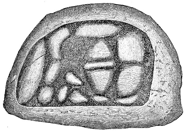 The Black Stone in Kaaba 1658